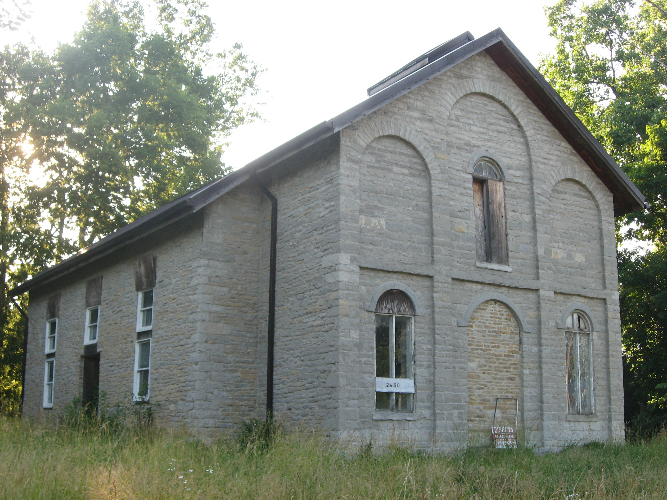 Front and southern side of the Stratford Methodist Episcopal Church, located at 2960 Olentangy River Road (State Route 315) south of Delaware in Delaware Township, Delaware County, Ohio, United States. Built in 1844, it is listed on the National Register of Historic Places.